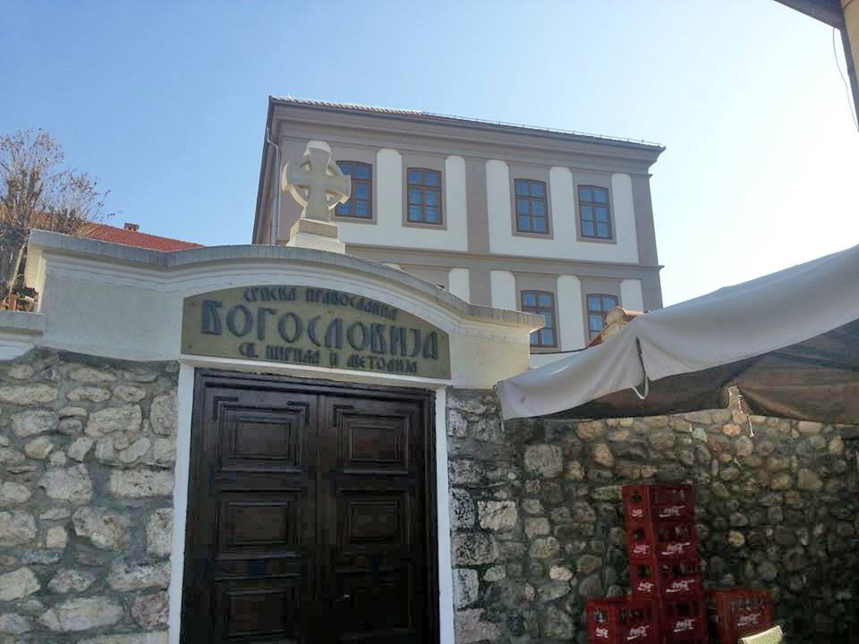 Orthodox Seminary of Prizren